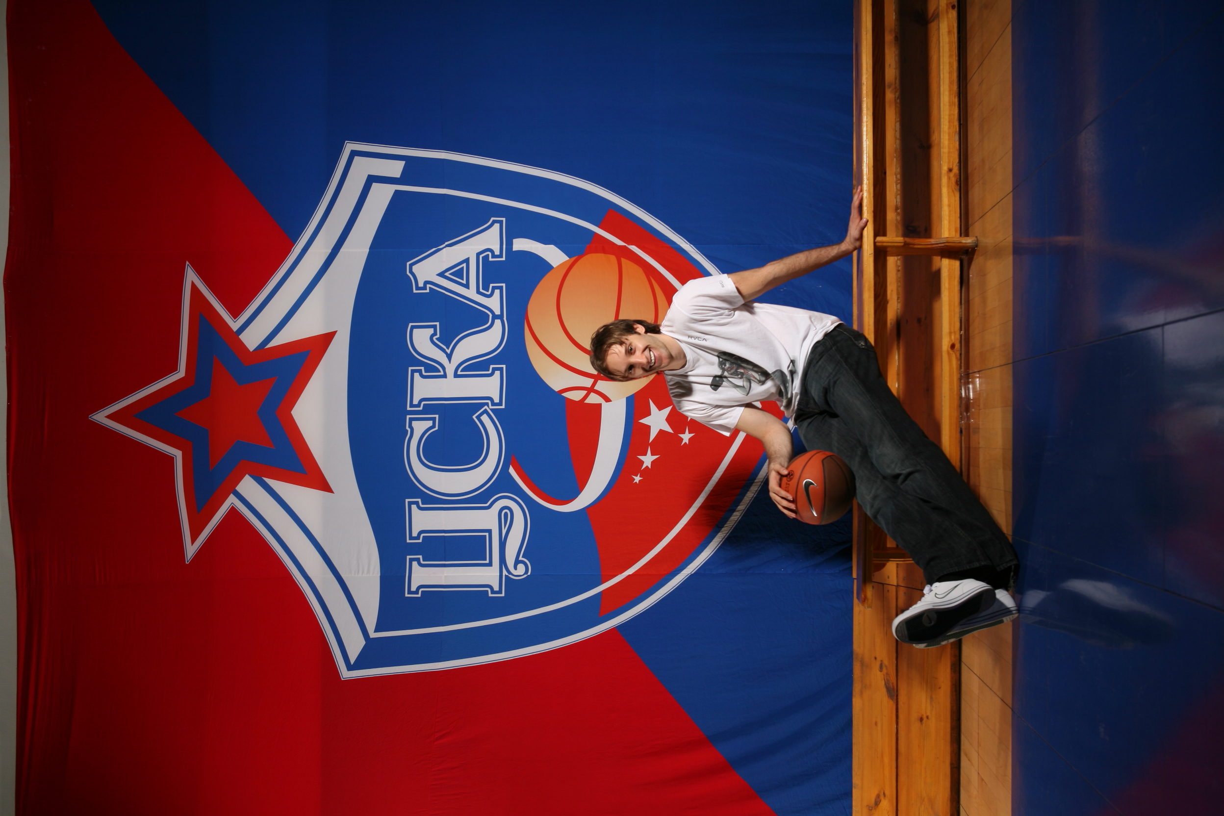 Planinic Zoran, croatian basketball player